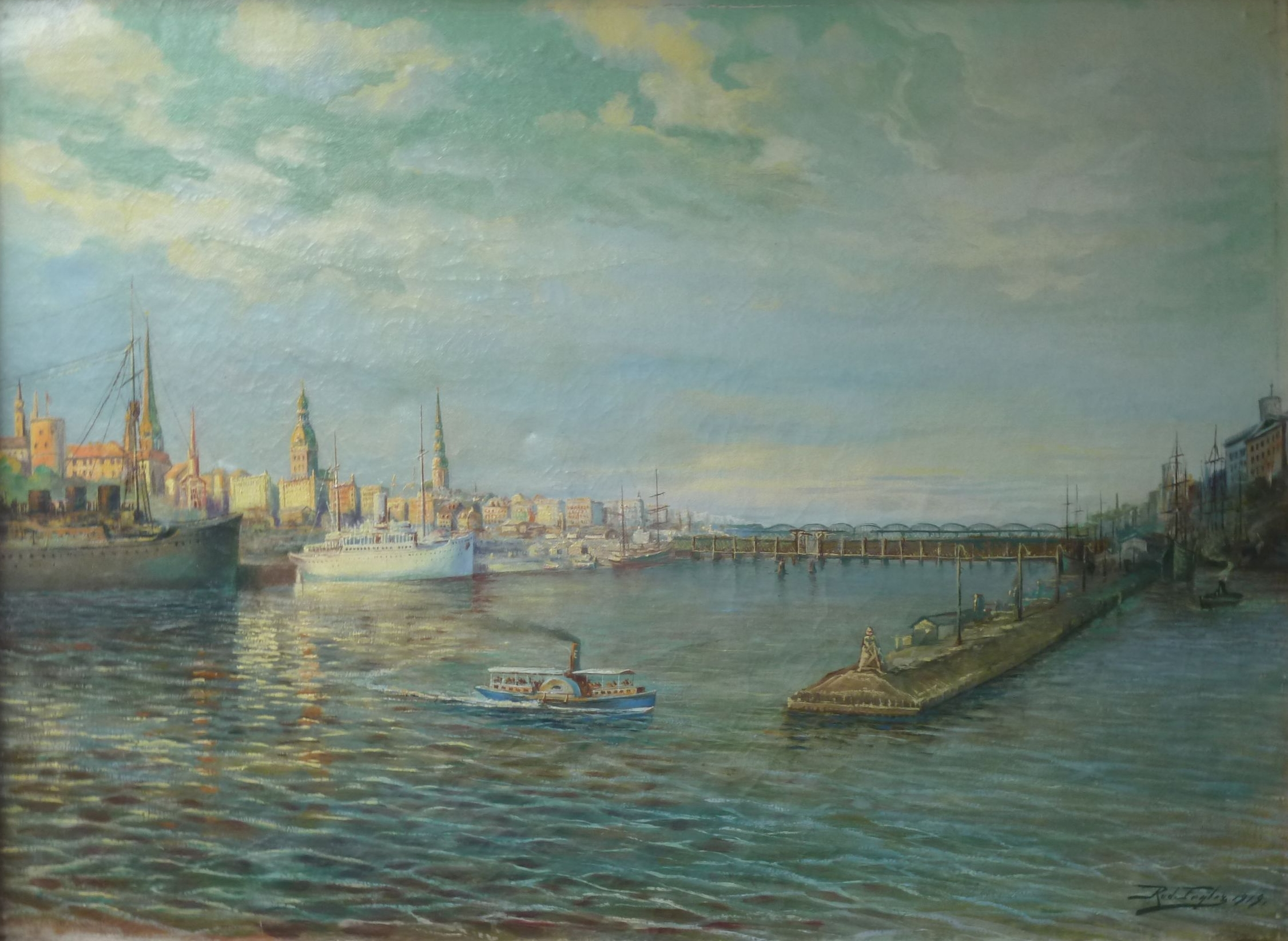 View of Riga, seen from river Daugava. signed 1919. oil on canvas 50 x 60 cm